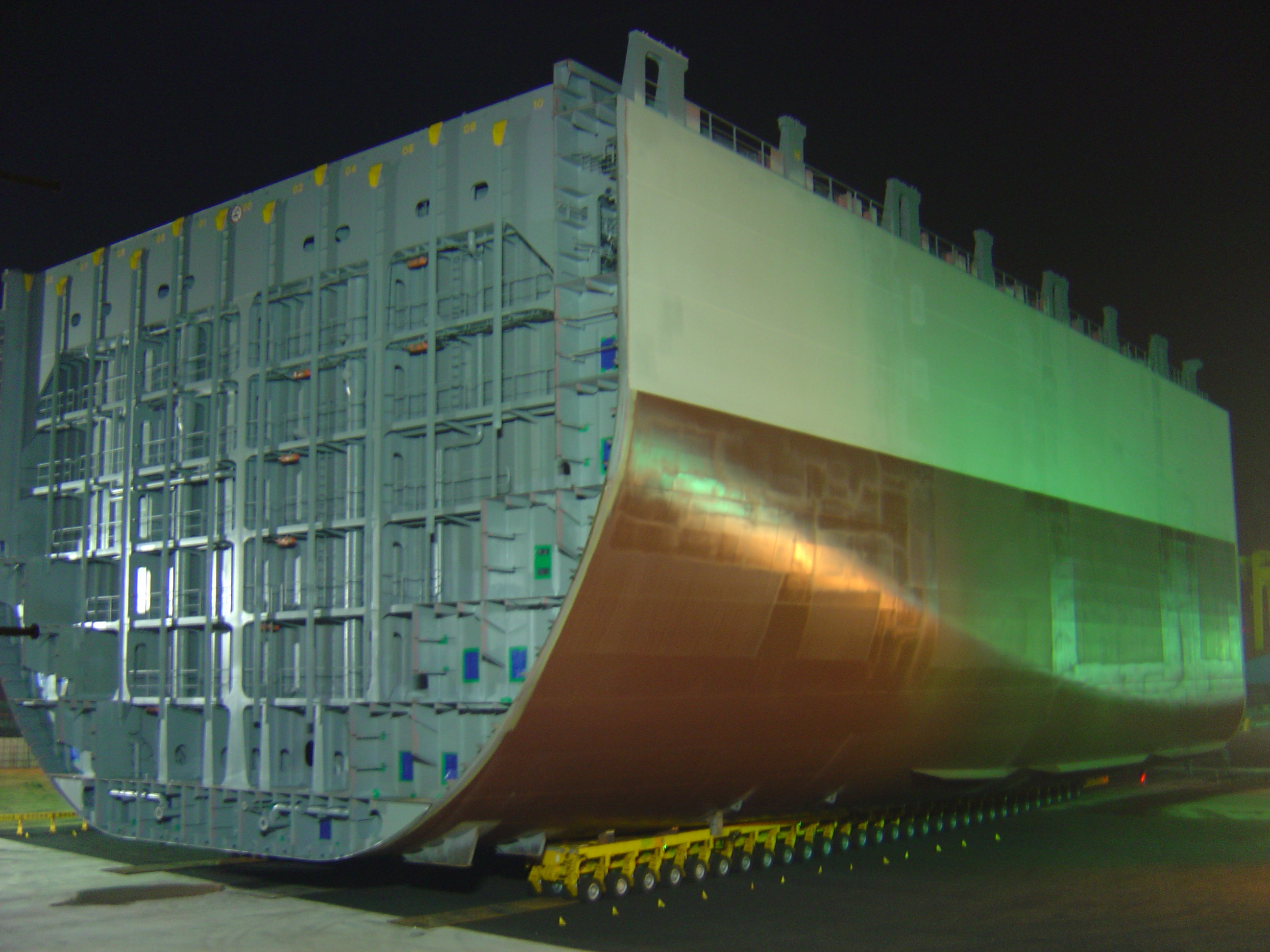 SCHEUERLE SPMTs moving a ship section